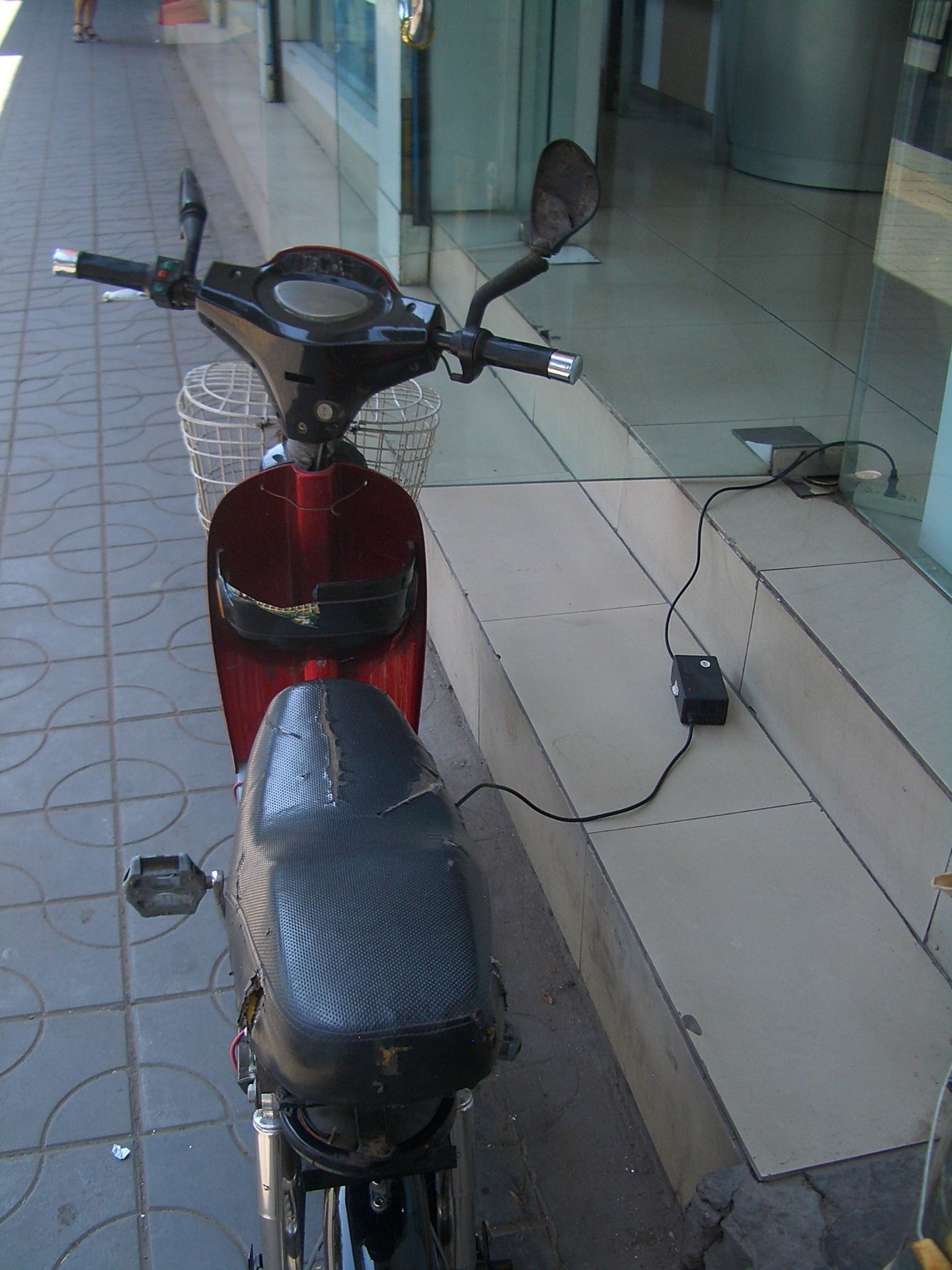 An electric scooter is being charged - via a small charger and a regular Chinese 220 V plug - near a shop in Lanzhou